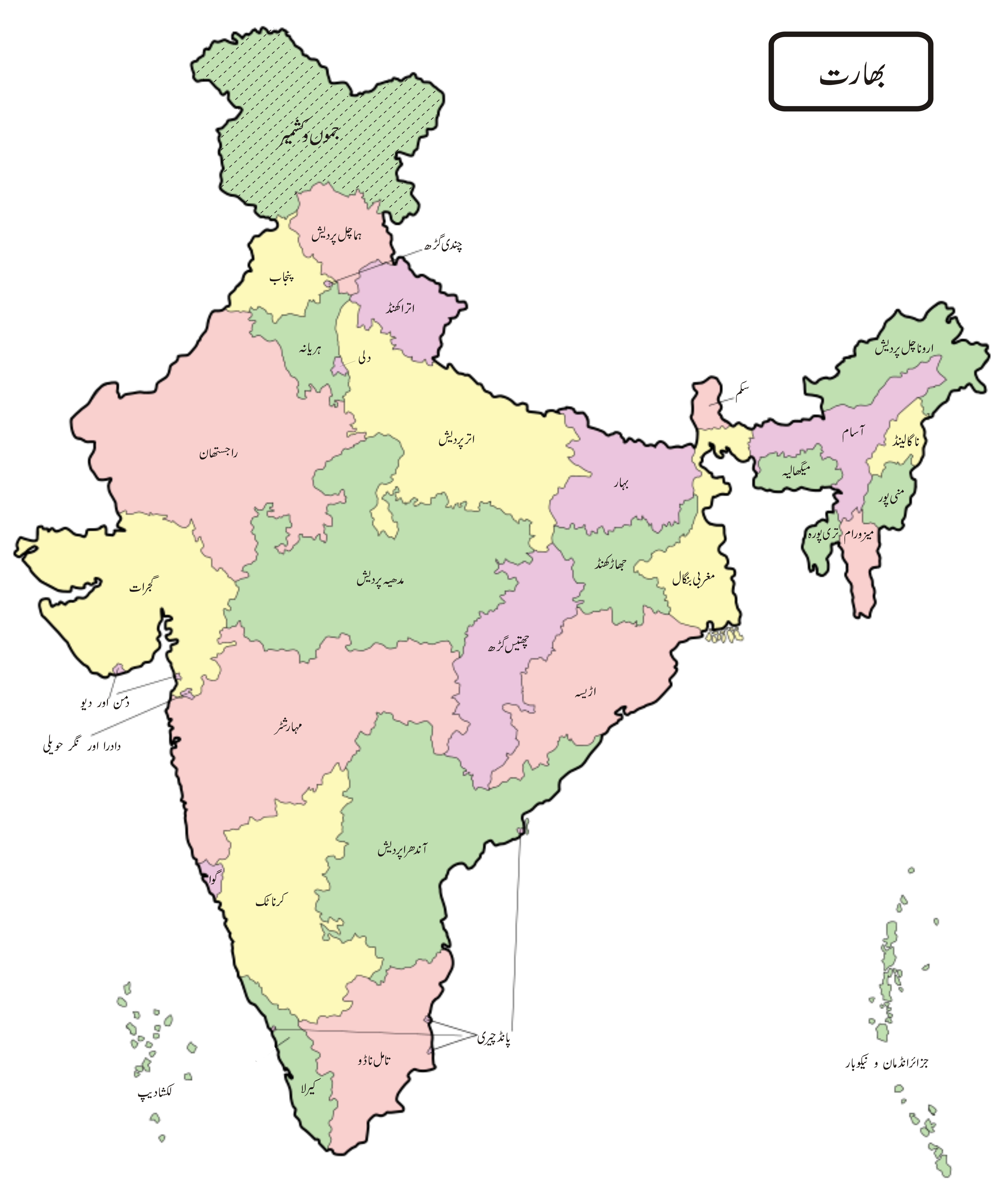 India-map-ur